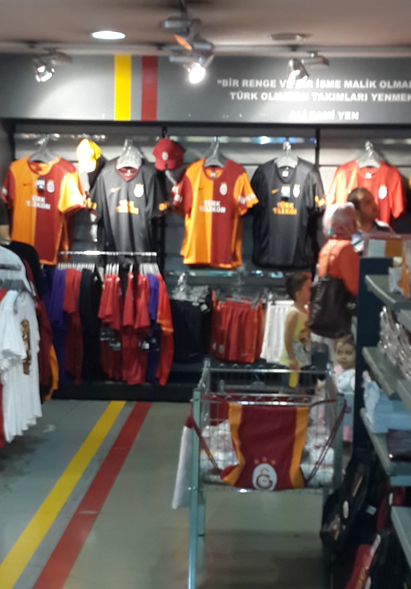 Galatasaray 2013-14 formaları